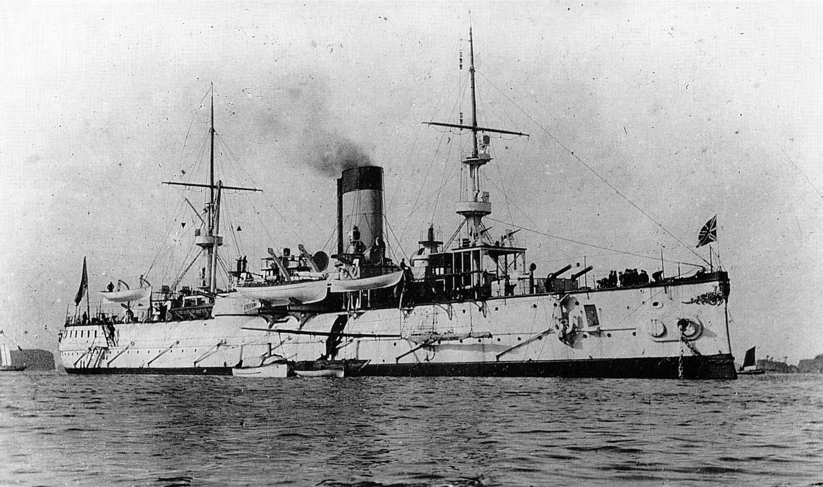 Imperial Russian arumoured cruiser Admiral Nakhimov, 1900-1903.